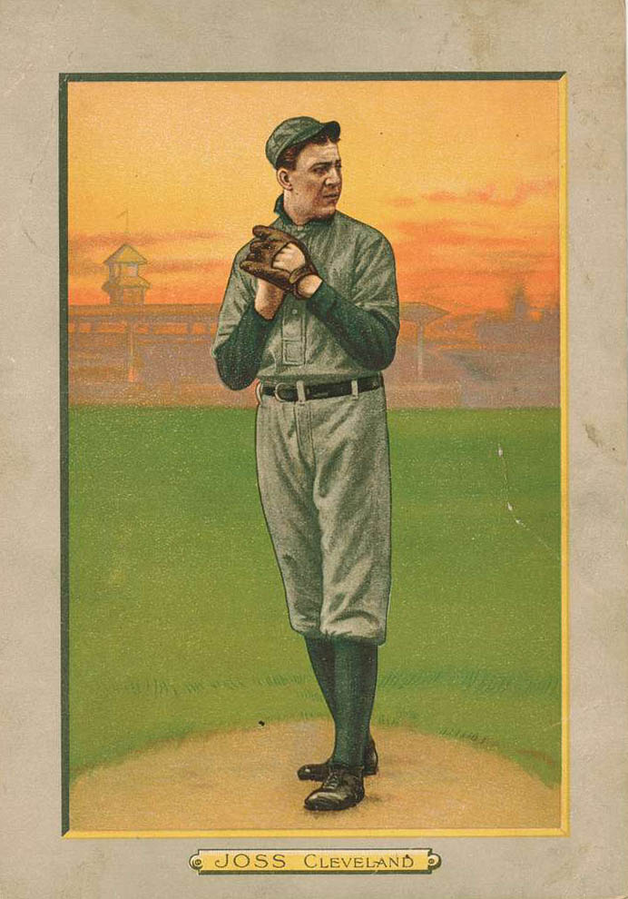 Card of Addie Joss, baseball playe, by American Tobacco Company.